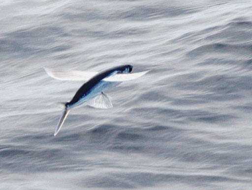 Atlantic flyingfish, Cheilopogon melanurus. Location: Atlantic Ocean off of Hatteras, North Carolina, United States.